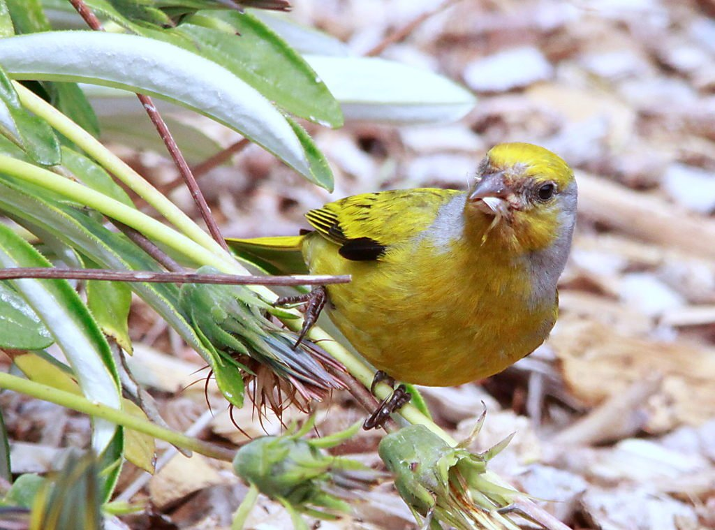 Cape Canary, Serinus canicollis, male at Kirstenbosch